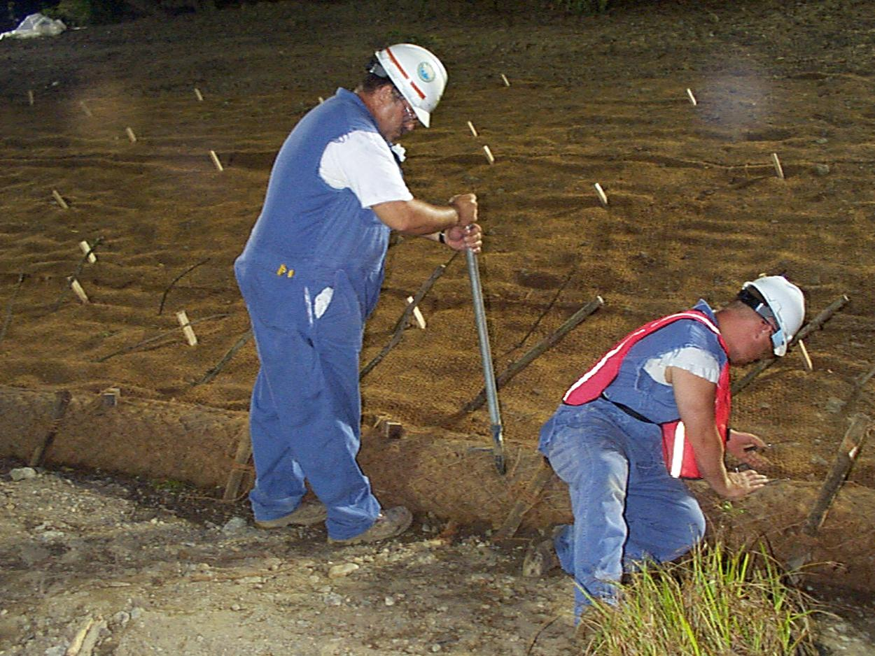 Workers Place Coir Logs and Fabric to Stabilize Bank from Erosion For more information or additional images, please contact 202-586-5251.